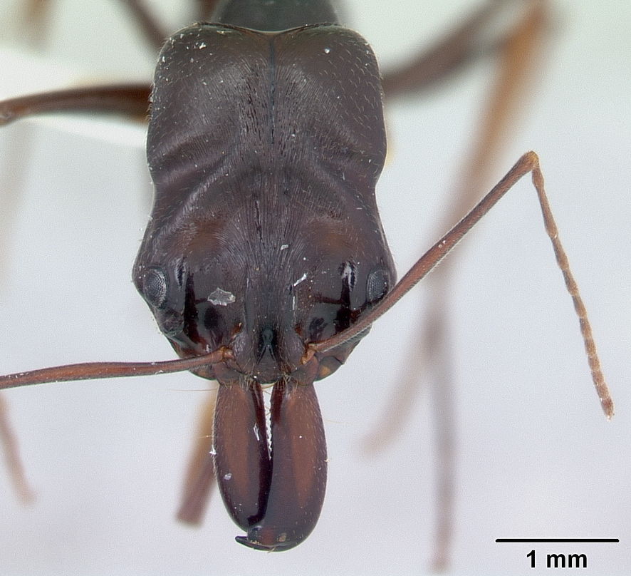 Head view of ant Odontomachus assiniensis specimen casent0178262.